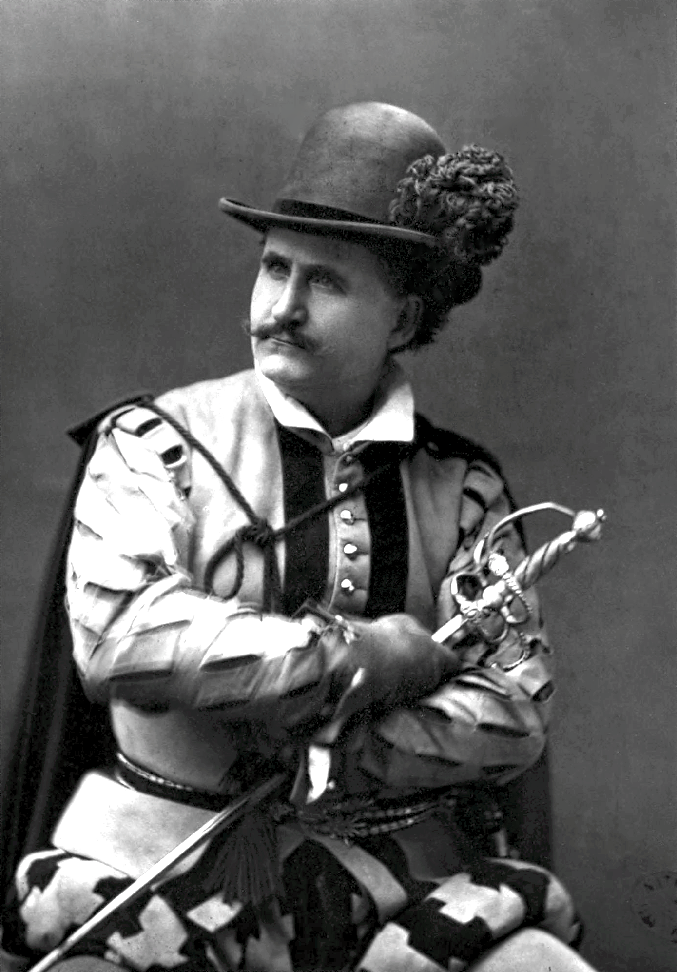 Photograph of Henri Lafontaine (1824–1898), French actor.